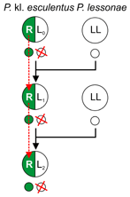 Hybridogenesis is a hemiclonal mode of reproduction (red arrows). Population system L-E here.